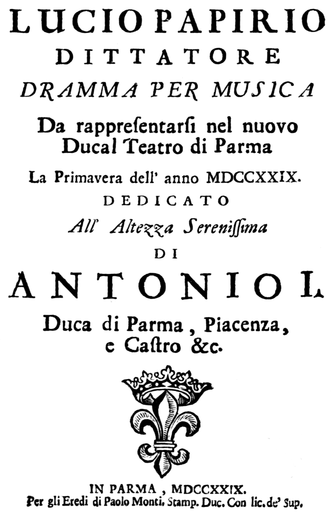 Geminiano Giacomelli - Lucio Papirio dittatore - titlepage of the libretto - Parma 1729